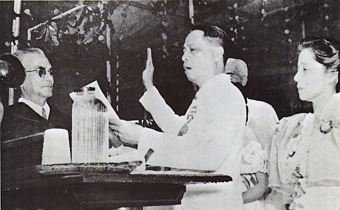 Commonwealth President Manuel Roxas was inaugurated as the 5th President of the Philippines on July 4, 1946 at the Independence Grandstand (now Quirino Grandstand), Manila. The oath of office was admistered by Chief Justice Manuel Moran.